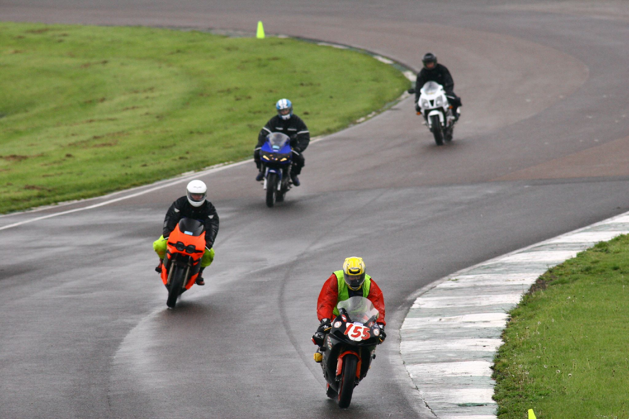 Motorcycle riders at Mallory Park during a trackday.